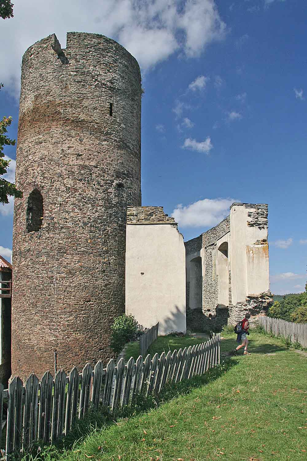 Svojanov Castle - tower autor:Prazak date: 9. 9. 2006